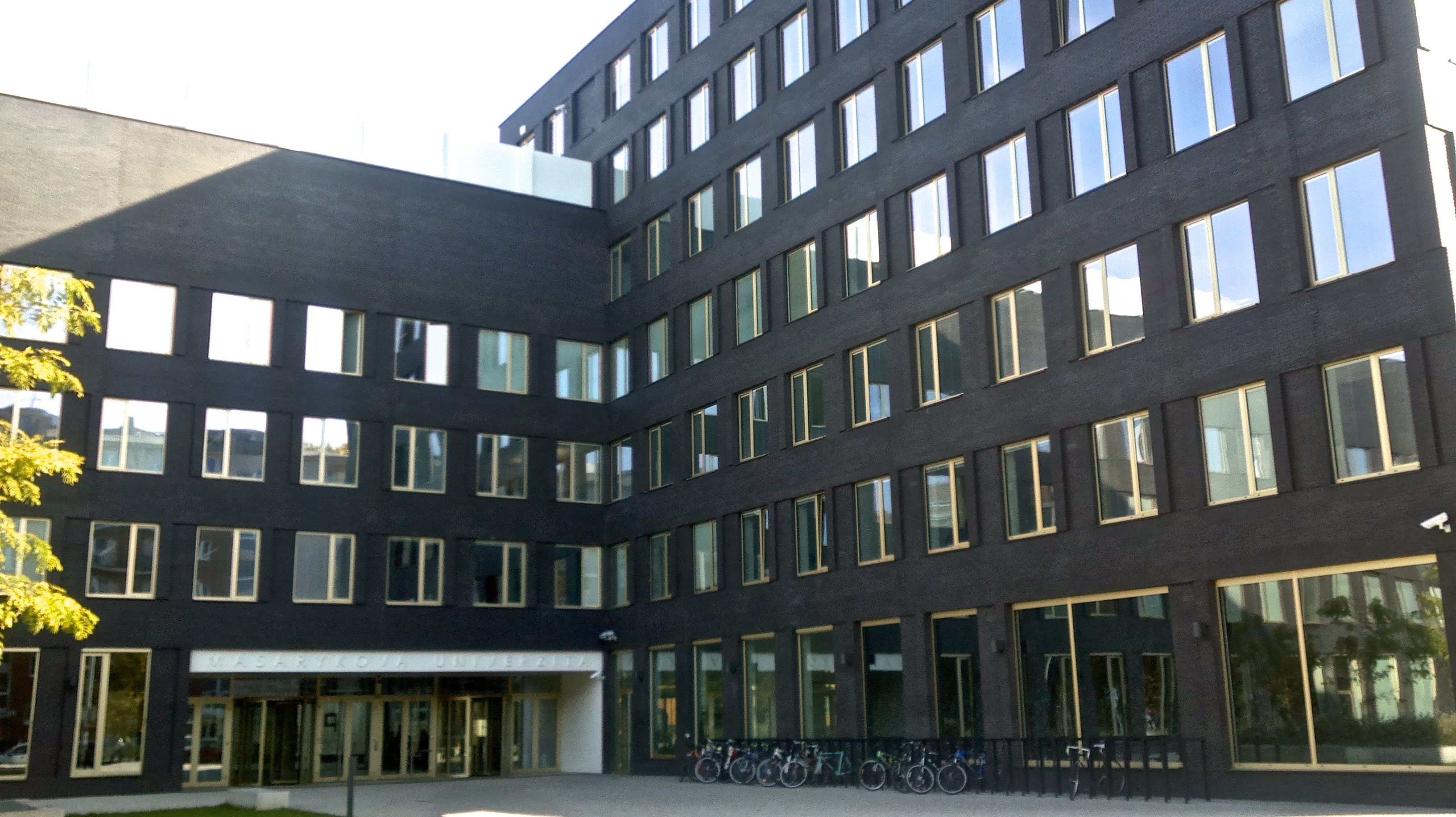 Faculty of Informatics, closer look to doors and pavement